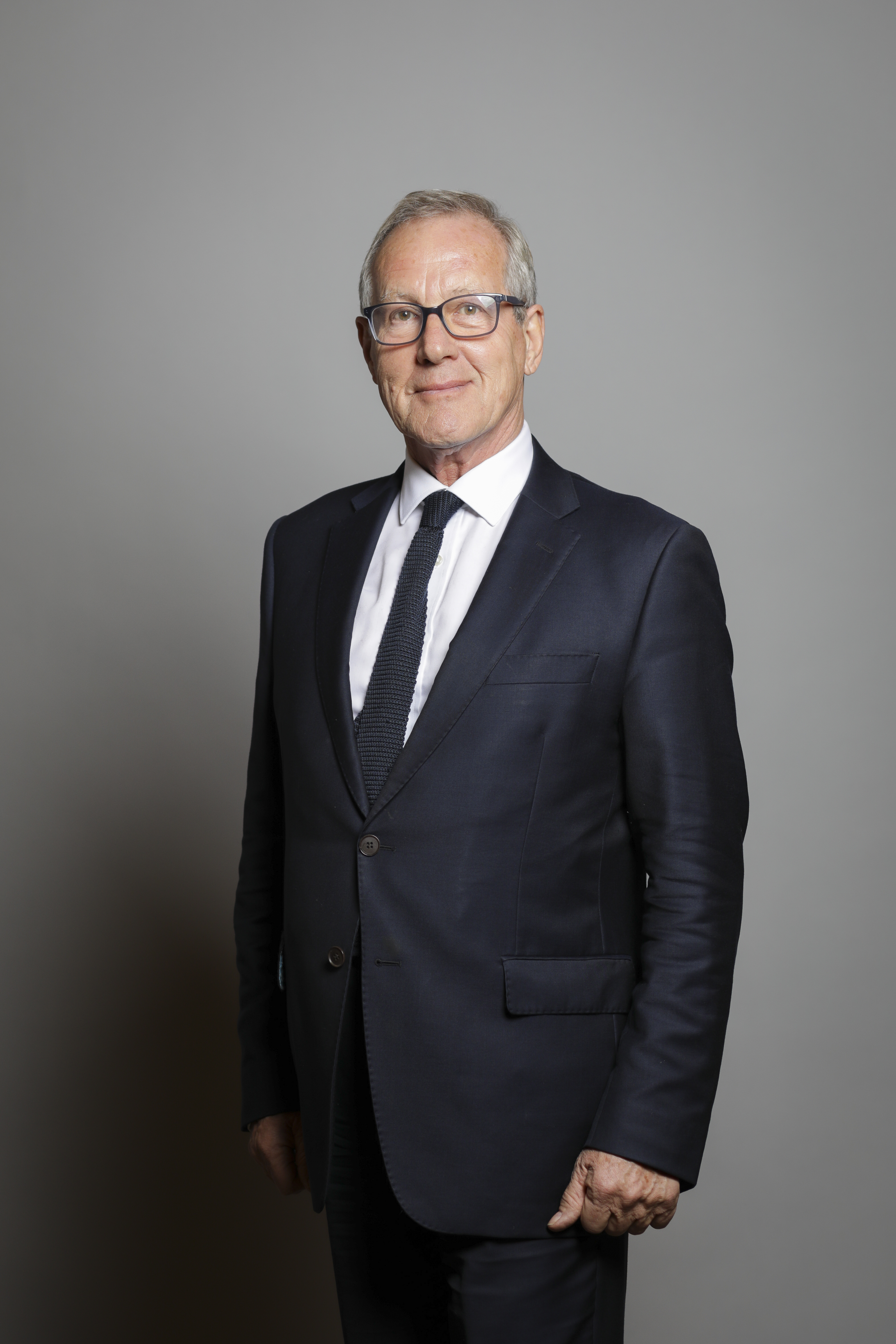 Official portrait of Lord Stone of Blackheath Full sized portrait of Lord Stone of Blackheath